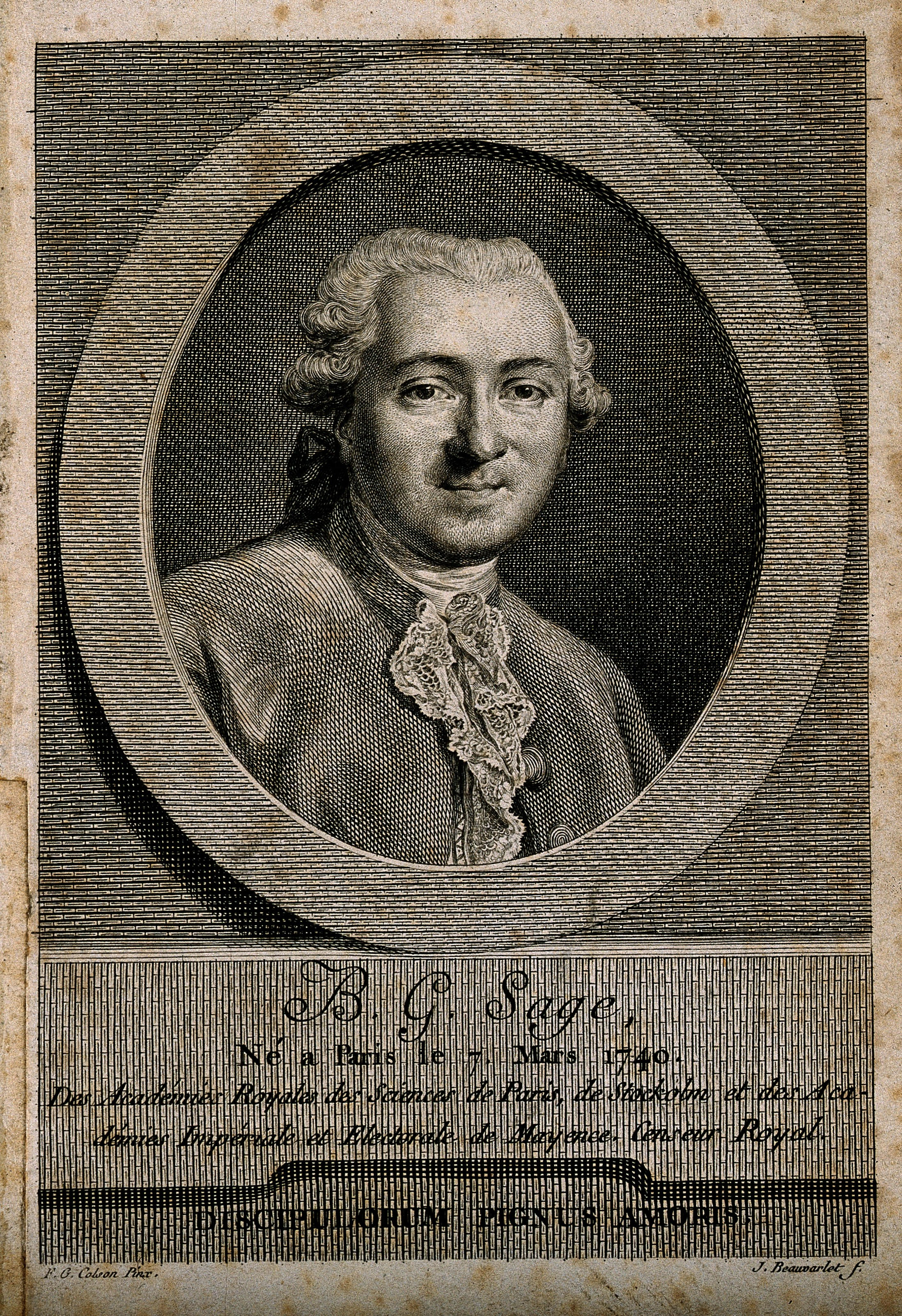 Balthazar Georges Sage (1740-1824) Iconographic Collections Keywords: portrait prints; engravings; Balthazar Georges Sage